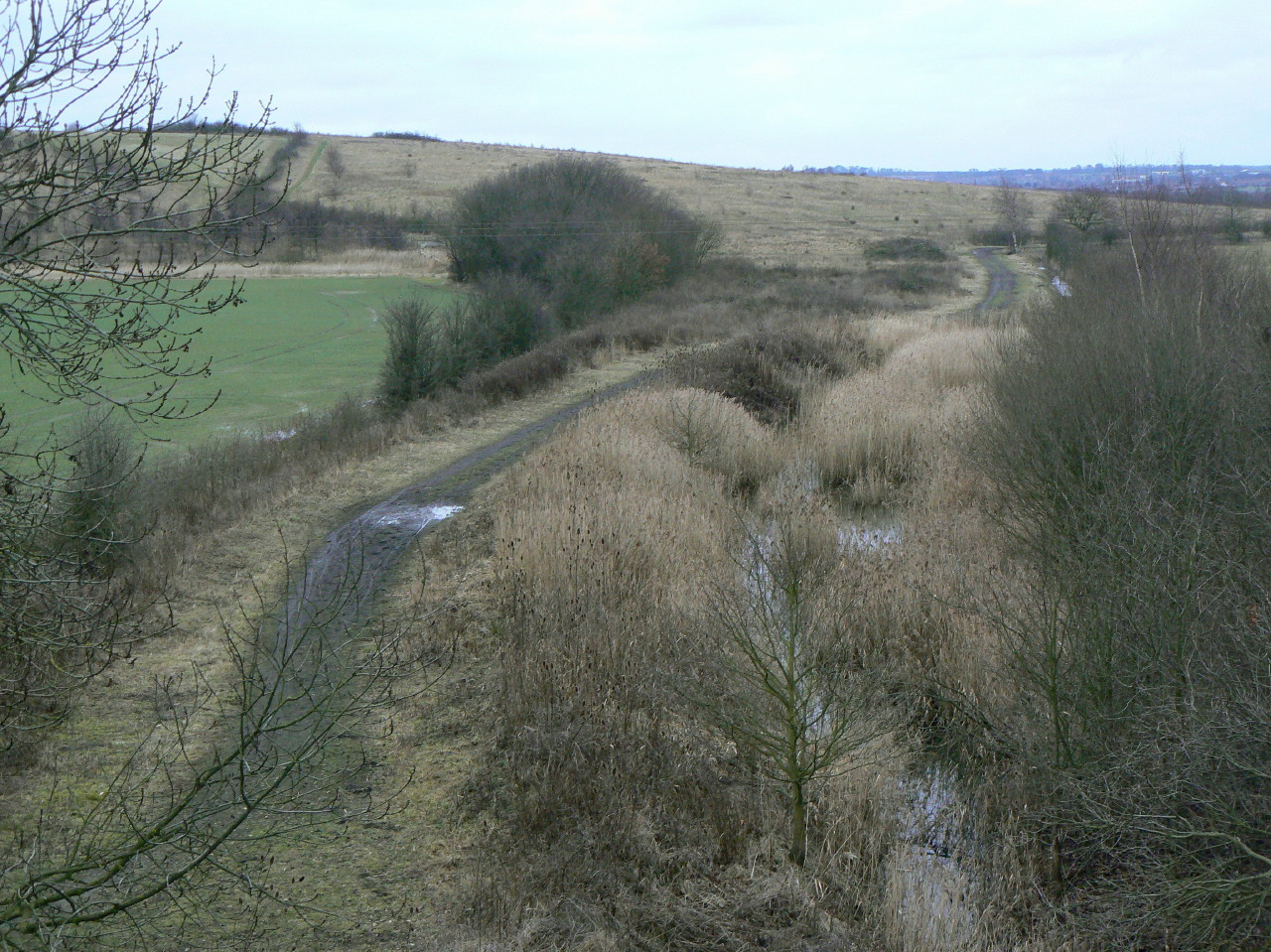 Transpennine Trail Following a former railway line near Shaftholme. The raised ground beyond is the former Bentley Colliery spoil tip.